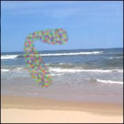 author: Greensburger